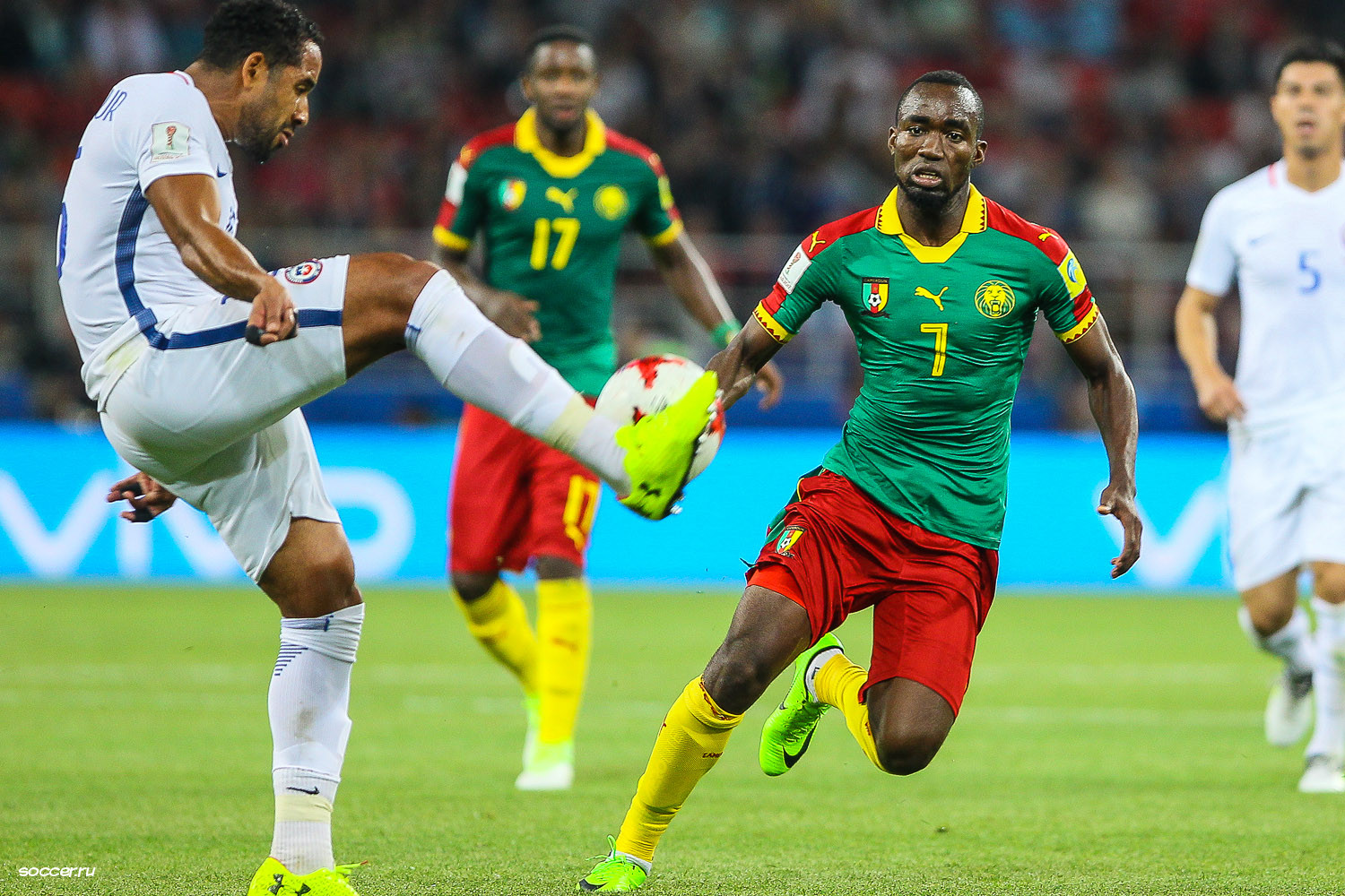 Cameroon vs Chile (0-2). FIFA Confederations Cup 2017